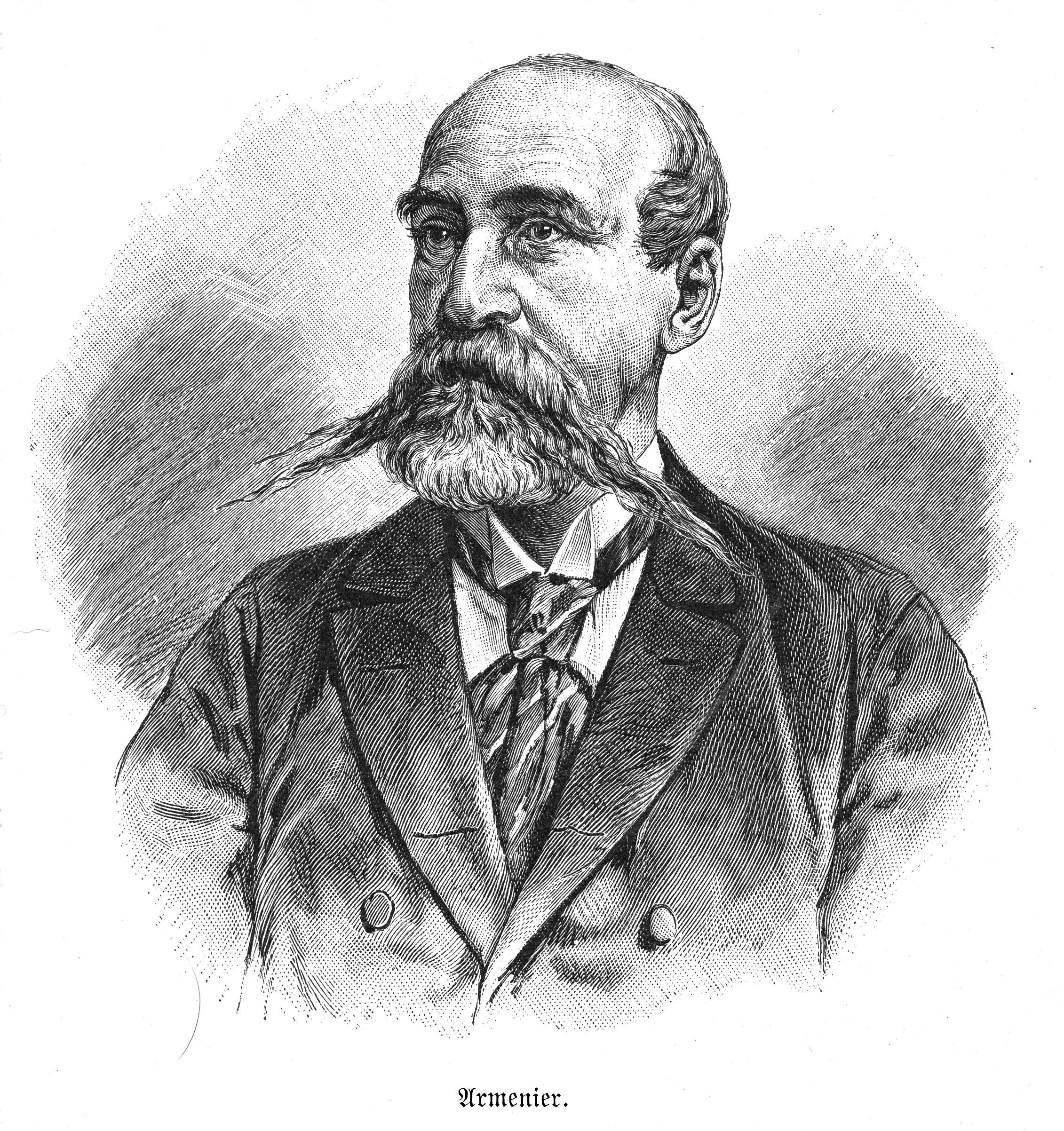 Armenian from Czernowitz (Austria-Hungary) 1900